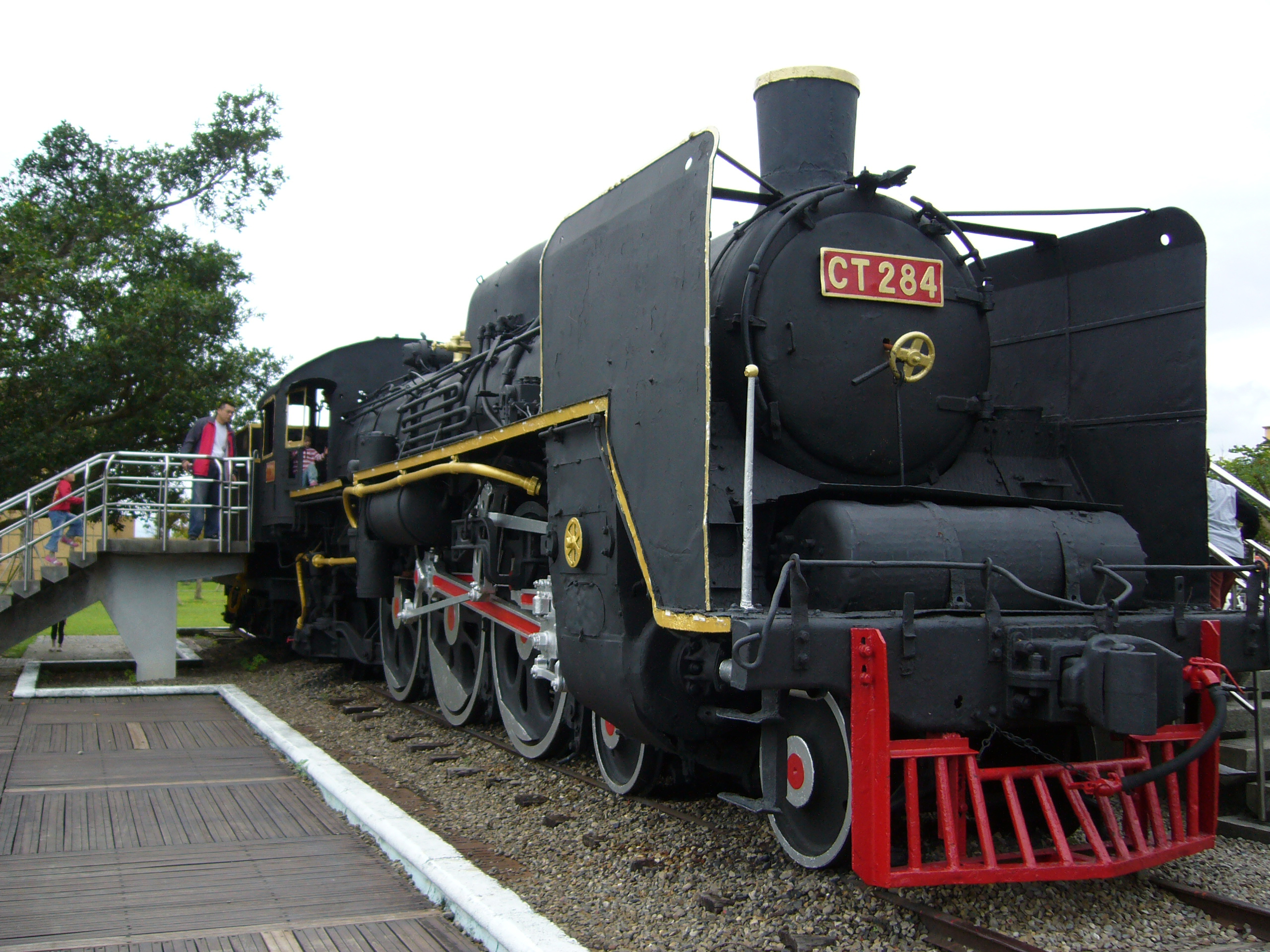 snaped in Yilan City, Taiwan by myself.